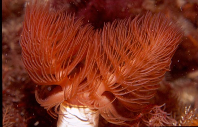 A photograph of a red fanworm, Protula bispiralis taken in 30m of water on the Atlantic side of the Cape Peninsula using a NIkonos V camera